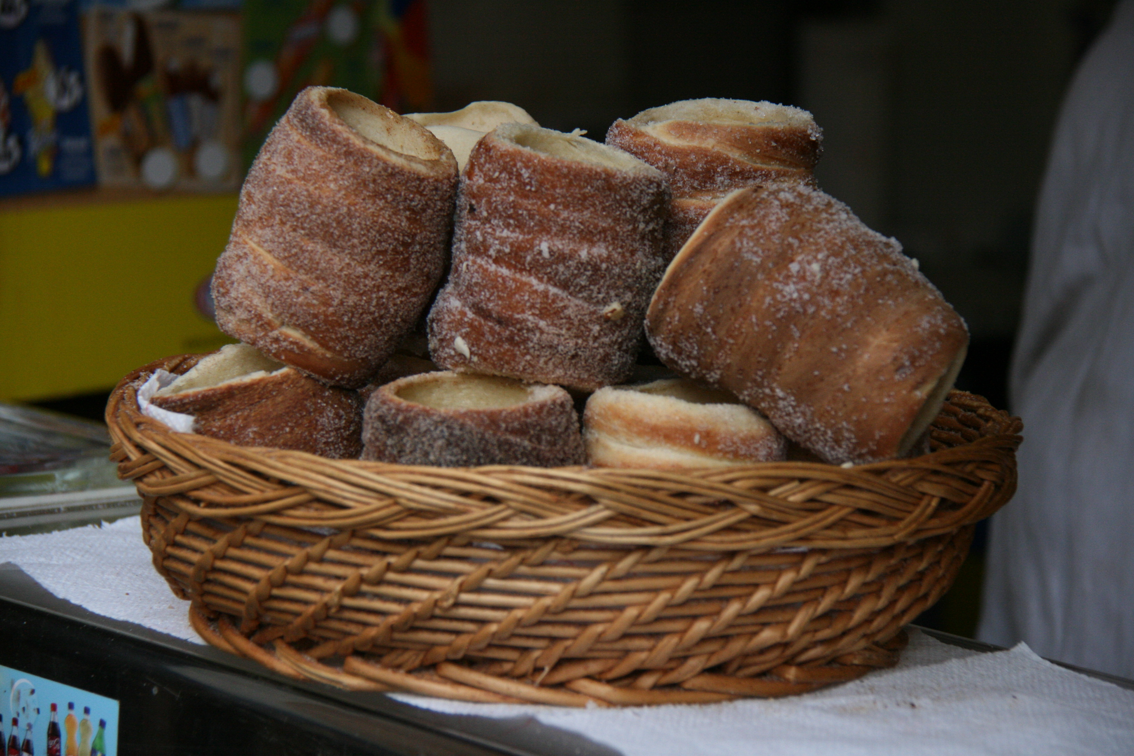 A basket with a freshly Trdelník